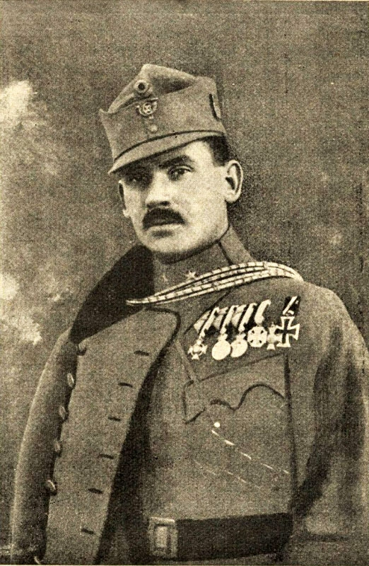 Alfred Bisanz (1890-1951) - Austrian and Ukrainian military